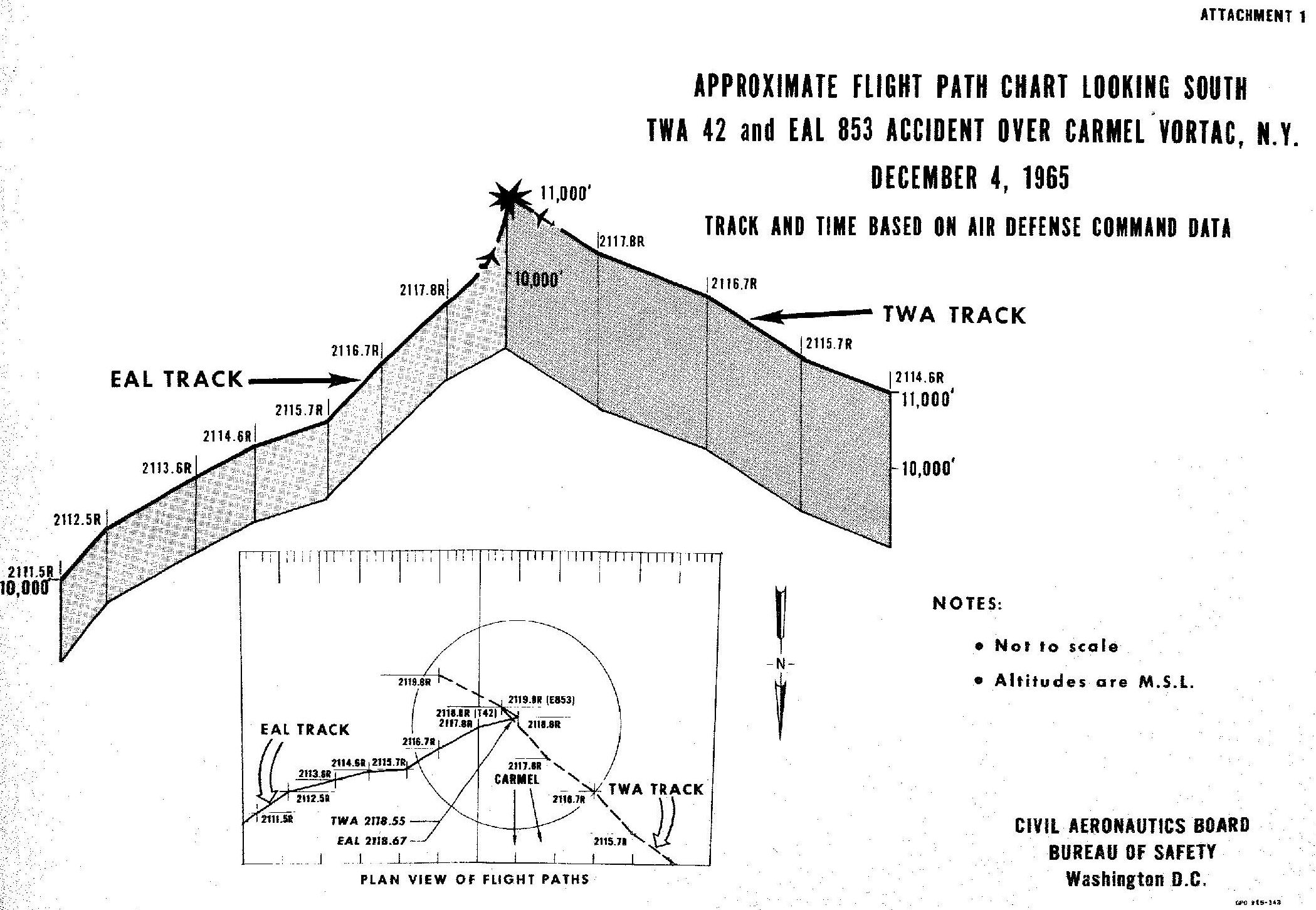 CAB Accident Report, 1965 Carmel mid-air collision - Page 18